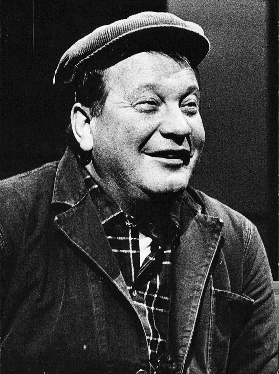 Carl-Gustaf Lindstedt in Ernst Bruun Olsen's musical play "A Bourgeois Ball" at Maximteatern, 1968.